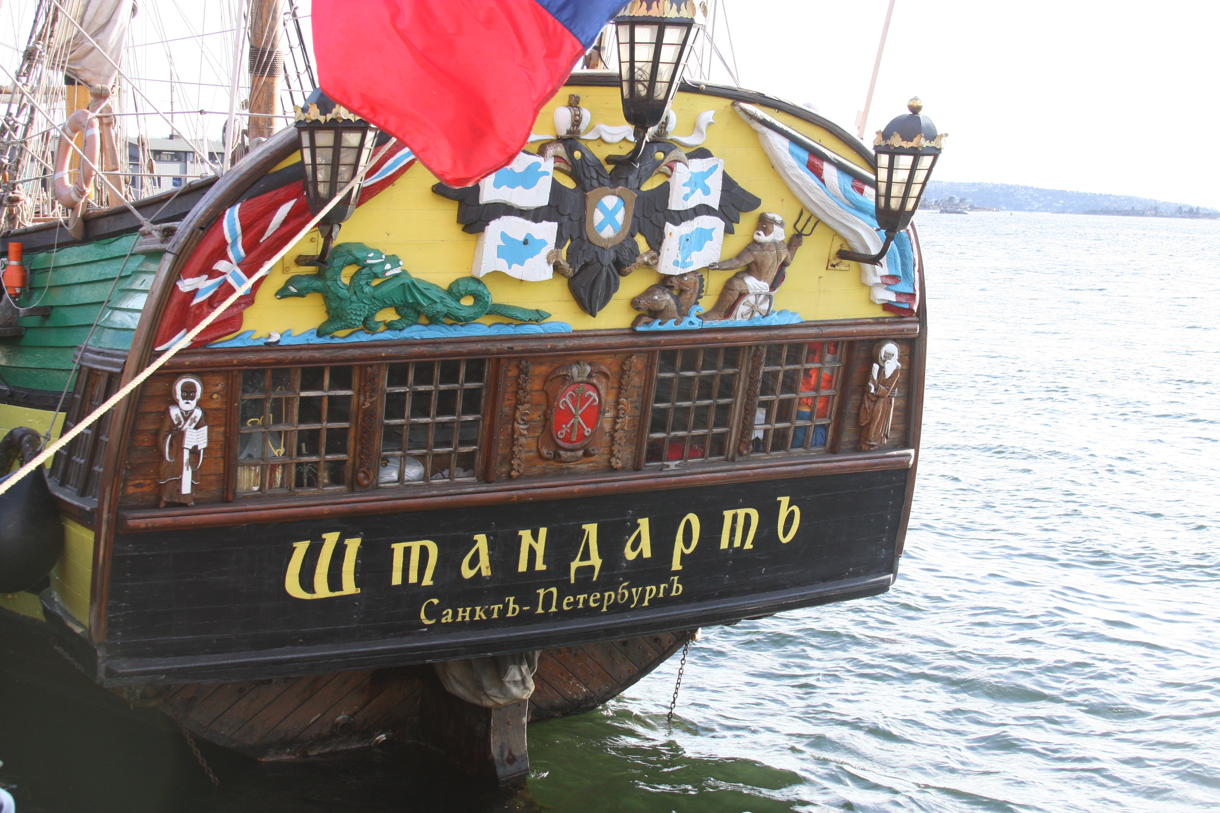 Shtandart (Sjtandart), a replica (1999) of the 1703 sailing vessel of Sankt Peterburg, Russia. Here at anchor in Oslo, Norway.